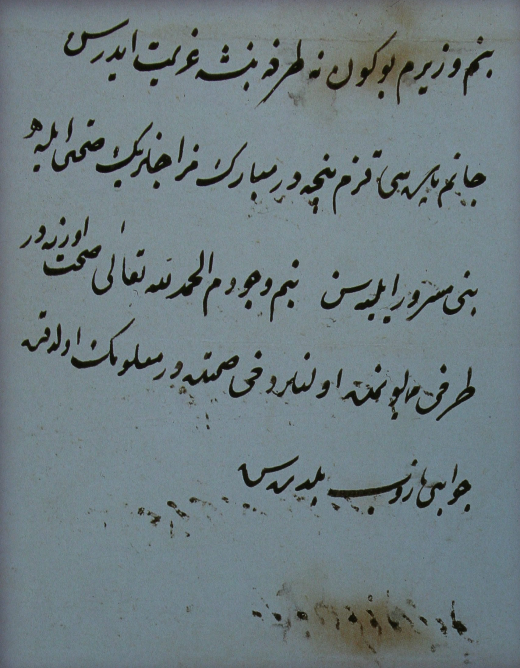 Handwritten note by Ahmed III:"My Vizier. Today where do you intend to go? How is my girl, the piece of my life? Make me happy with the health of your holy disposition. My body is in good health, thank be God. Those of my imperial side are in good health as well. Let me know when you know."